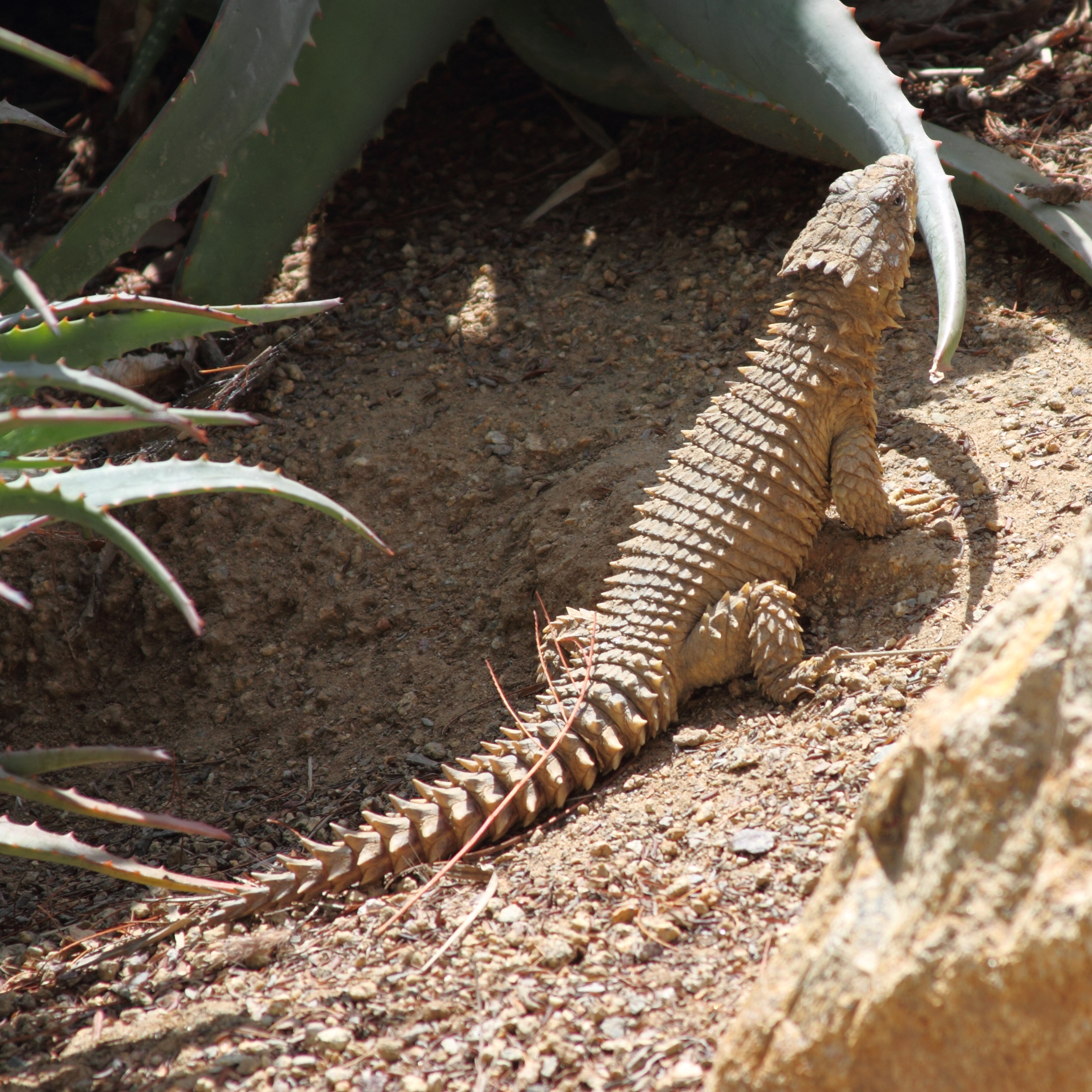 Image of Cordylus giganteus taken at the San Diego Zoo.